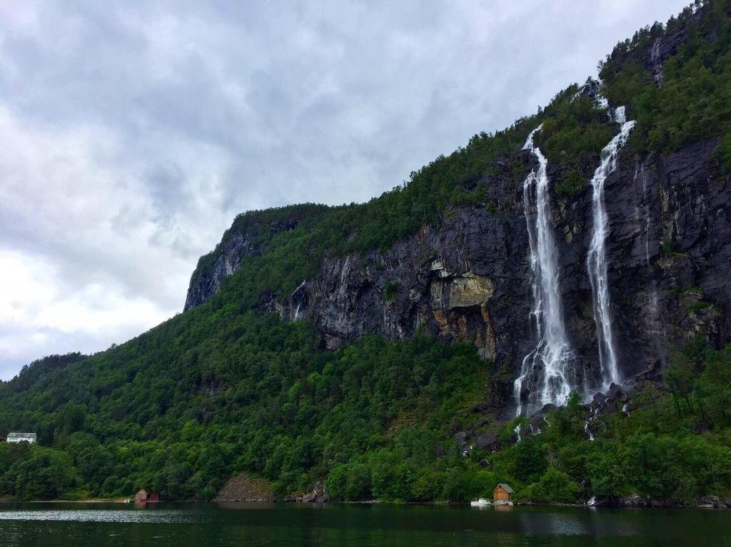 The Waterfall Hongavikfoss seen from Saudafjord in Norway.